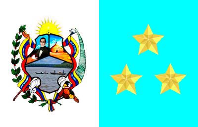 Bandera del municipio Cajigal, estado Sucre, Venezuela